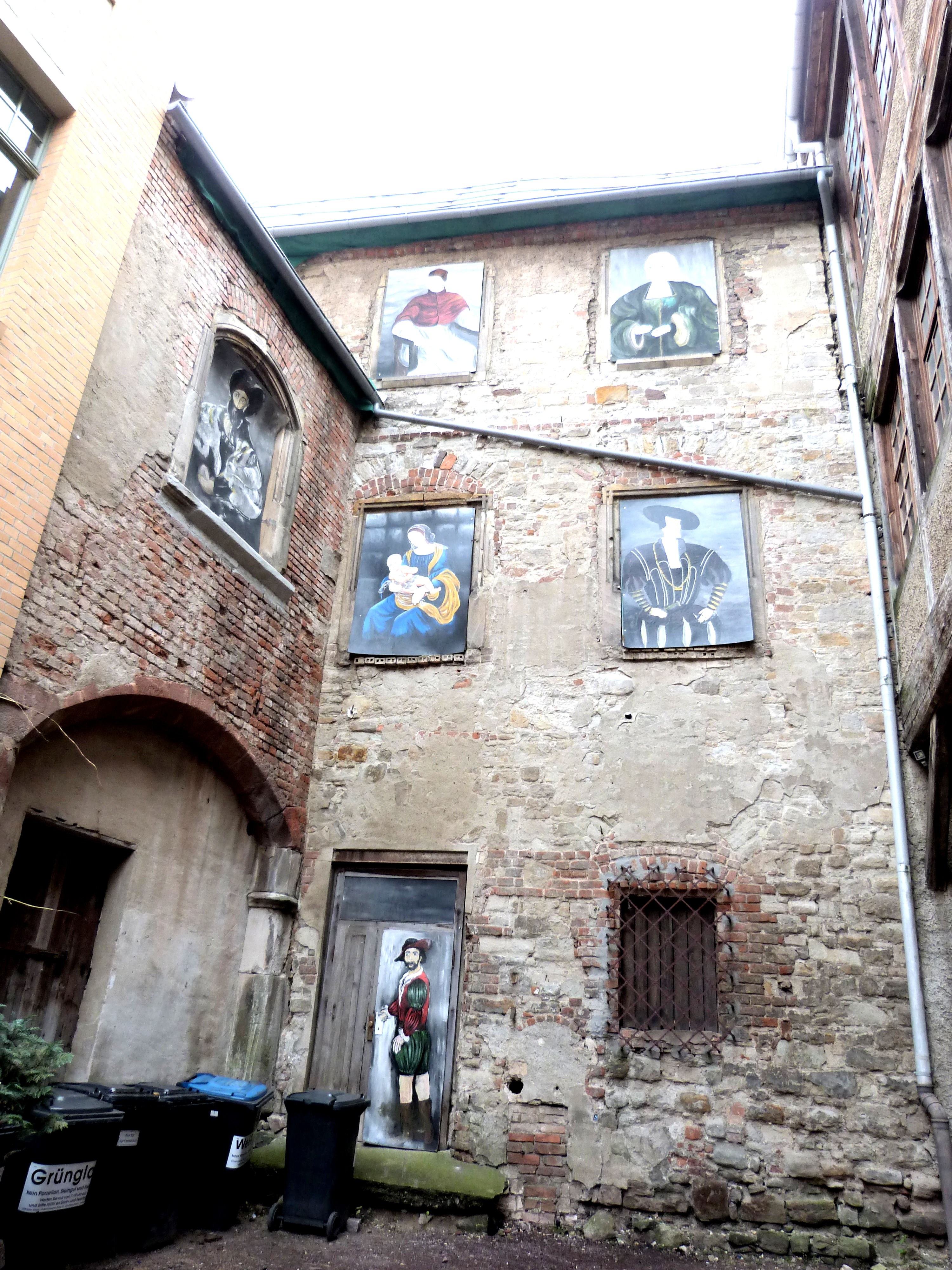 Kühler Brunnen Palace, halle (Saale)